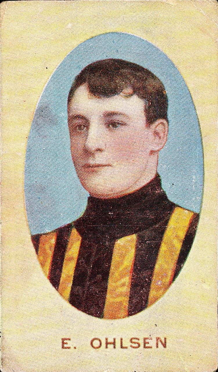 Cigarette card of Ted Ohlsen from the Sniders & Abrahams 1910 series